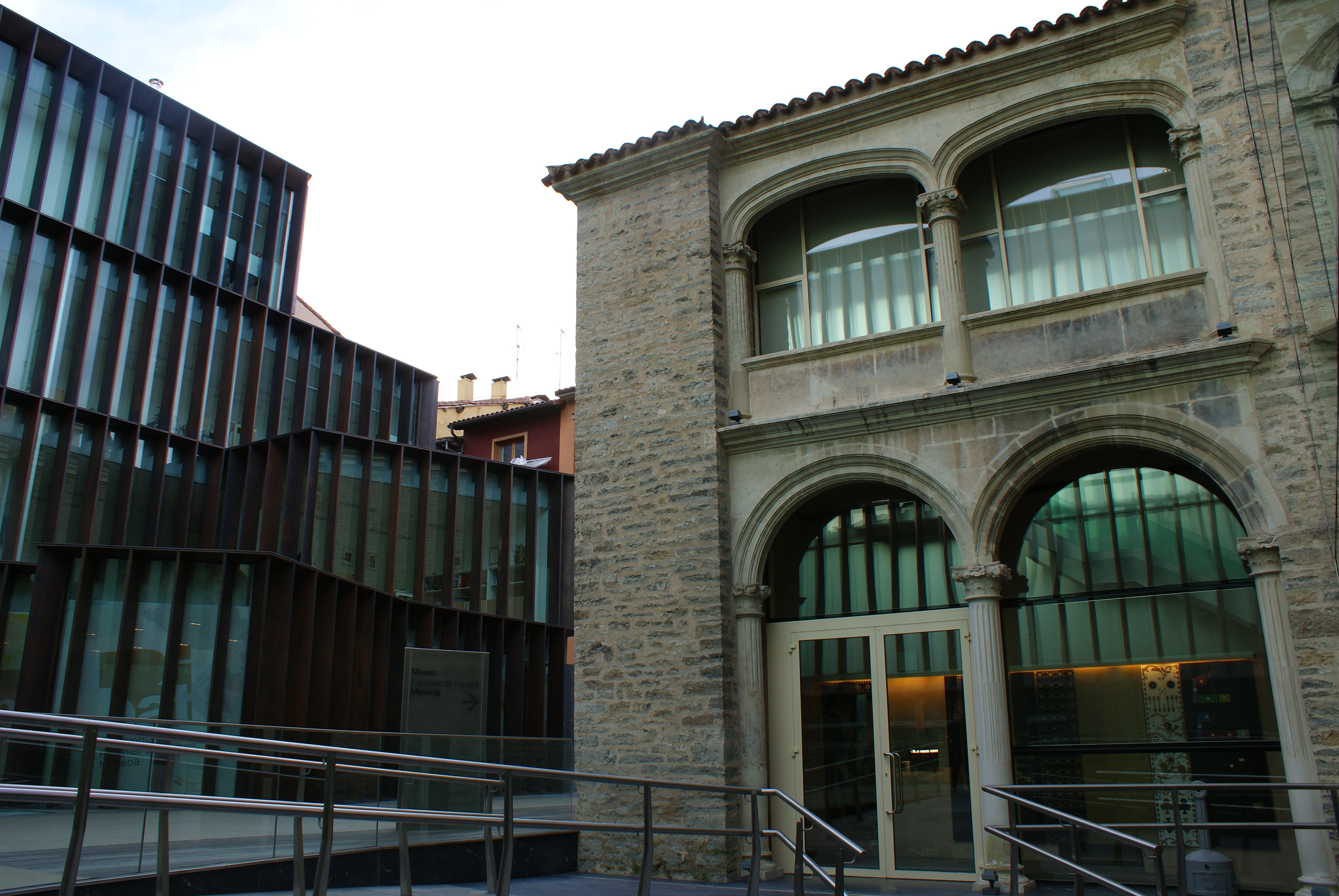 This museum in Gasteiz's medieval quarter houses two (bi) museums in one (bat)